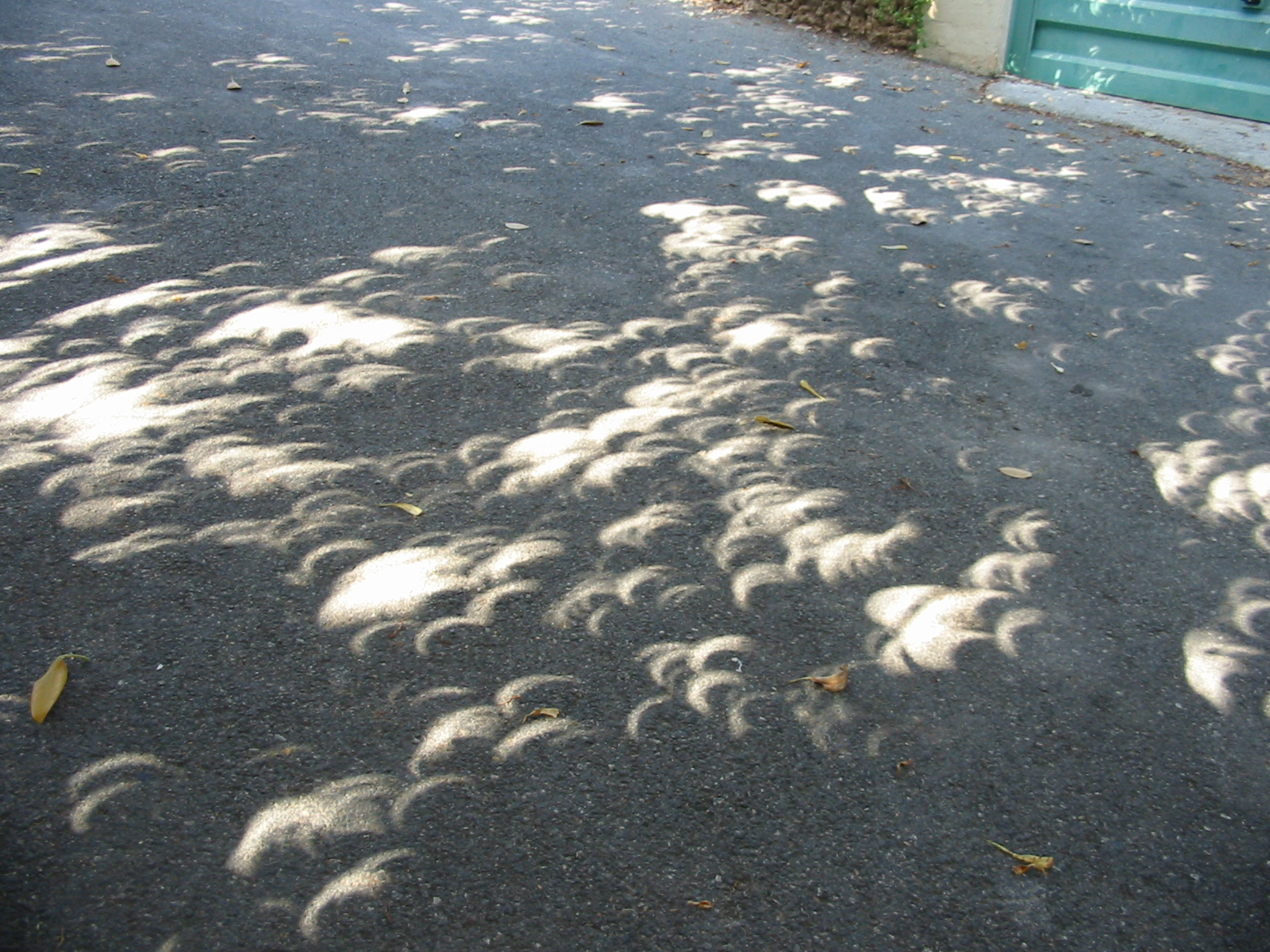 Sun during a solar eclipse through the leaves of a tree. St. Juliens, Malta